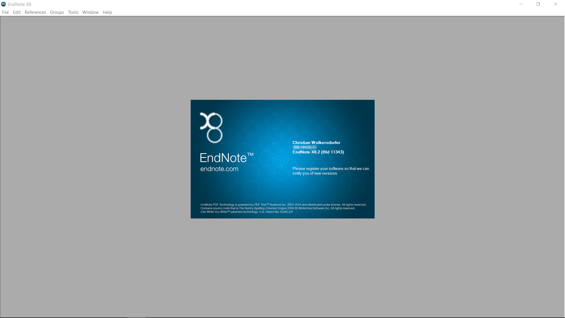 Endnote X8.2 running on Windows 10